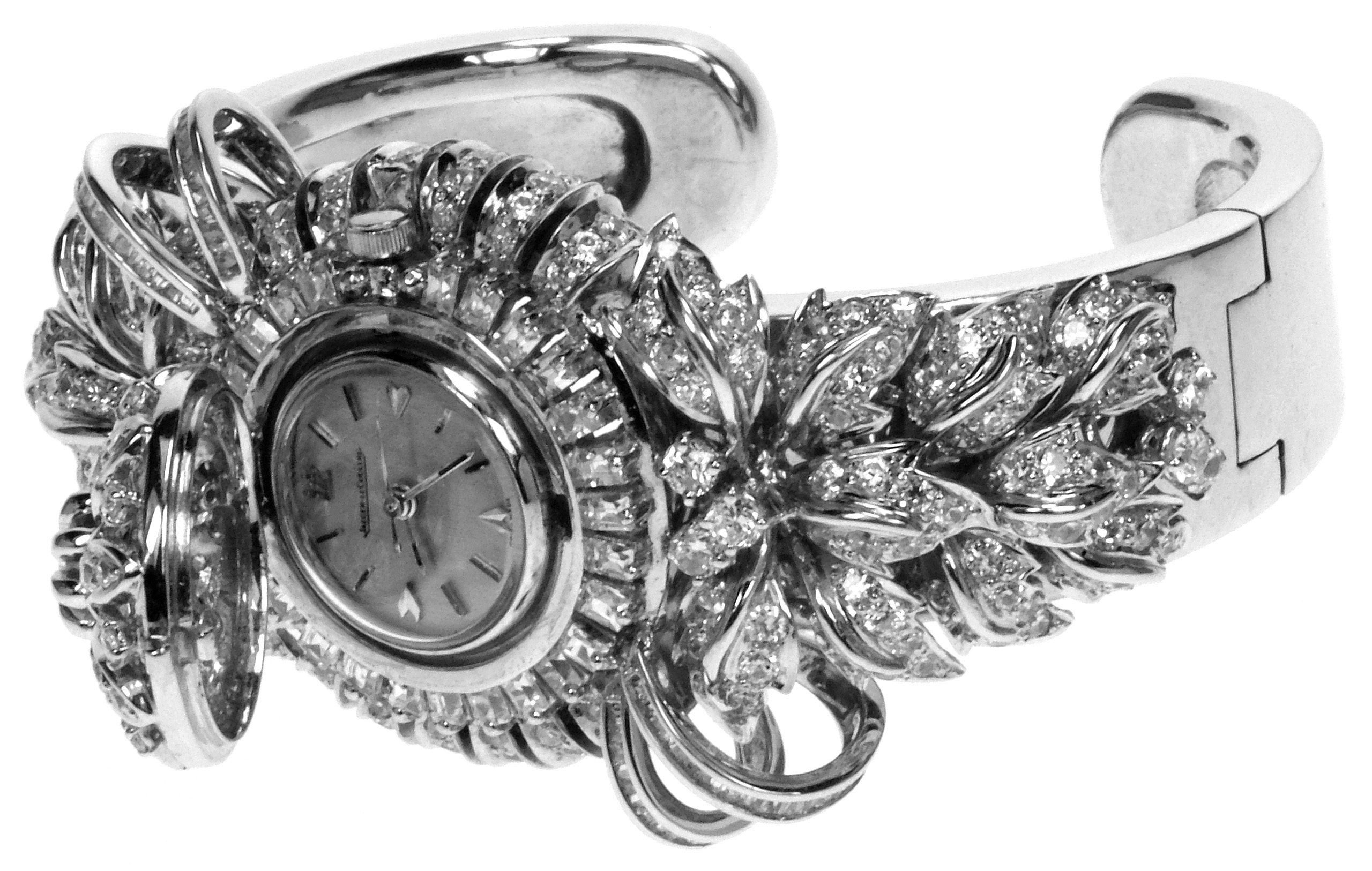 The "Koningen Juliana" (Queen Juliana) watch, made for Queen Juliana of the Netherlands; donated by the Dutch people.